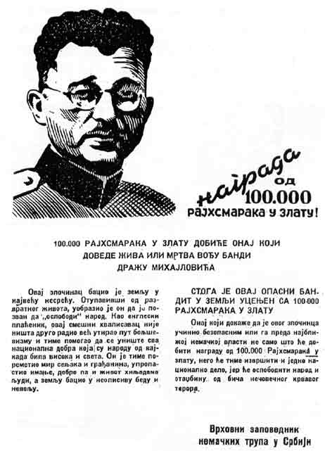 German Warrant on Draza Mihailović, offered a reward of 100,000 gold marks for the capture of Mihailović, dead or alive, 1943. Text on the poster says: "100,000 Reich marks in gold award THE PERSON TO BRING DEAD OR ALIVE BANDIT LEADER DRAJA MIHAILOVICH WILL RECEIVE 100,000 REICH MARKS IN GOLD This criminal brought the country to its greatest misery. Blunted by his lustful life, he has imagined to be the one to “free” the people. As an English mercenary, this ridiculous bragger has managed to do nothing else but to open the doors to bolshevism and thus help in destruction of all national goods sacred to the people since the ancient times. By doing so, he has disturbed the peace of citizens and peasants, ruined the property, goods and the lives of thousands, and threw the country into indescribable misery and trouble. THEREFORE, THE BOUNTY OF 100,000 REICH MARKS IN GOLD HAS BEEN PLACED ON THE HEAD OF THIS DANGEROUS BANDIT The person to prove to have made this criminal harmless, or to surrender him to the nearest German post will not only be awarded by the prize of 100,000 Reich marks, but also by the fulfillment of a national deed, because it will liberate the people and the fatherland from the whip of an inhuman terror."